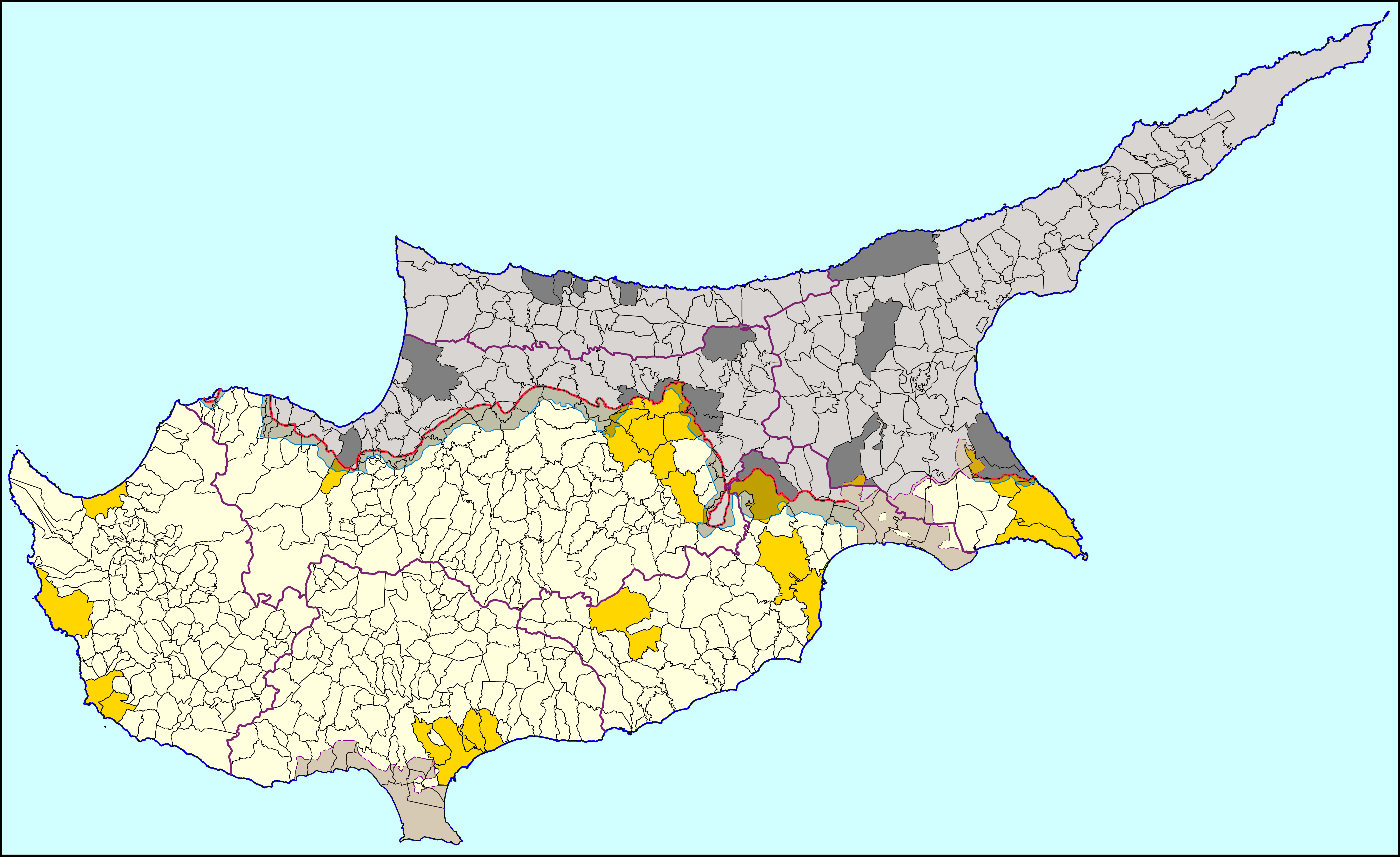 Administrative map of Cyprus, showing the communities and municipalities, both in the free areas, the Turkish-occupied areas and the buffer zone.